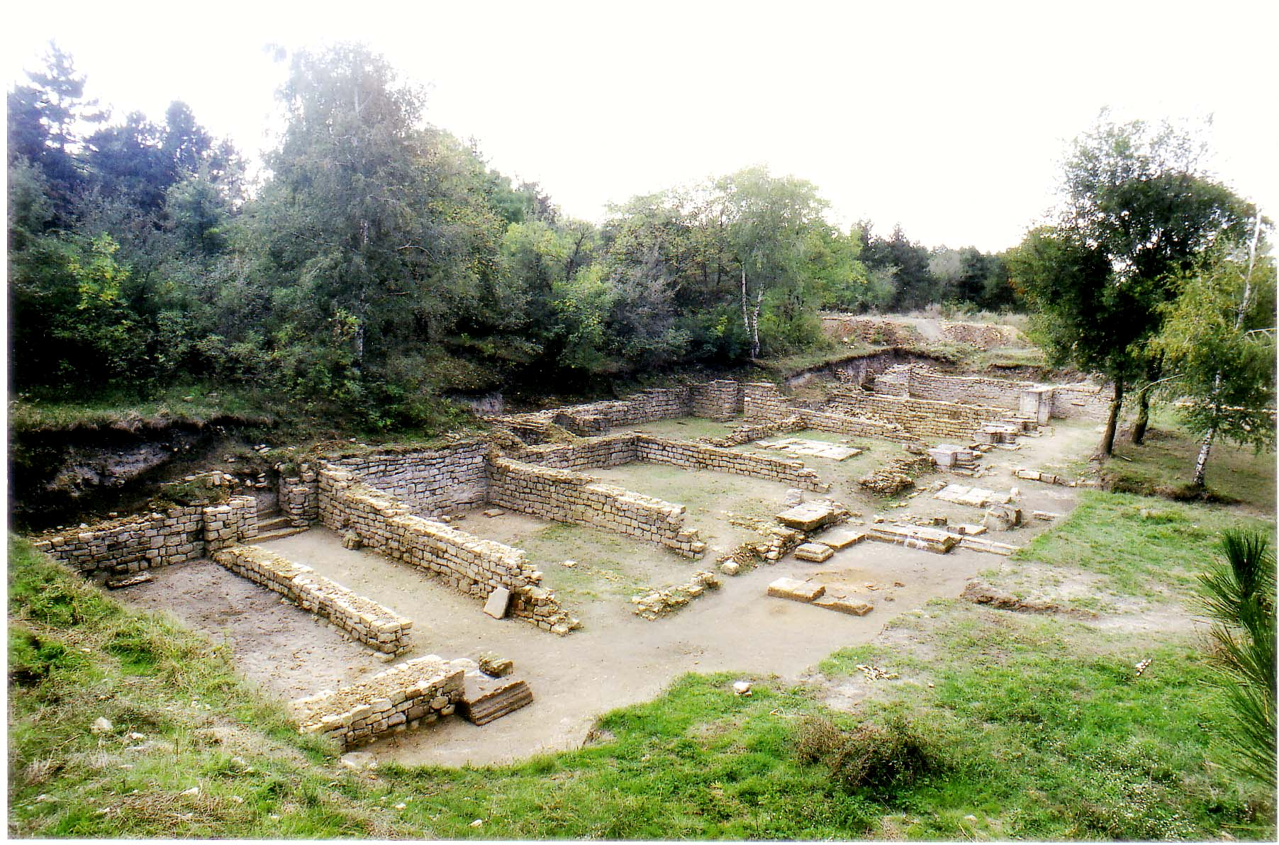 Novae - legionary headquaters